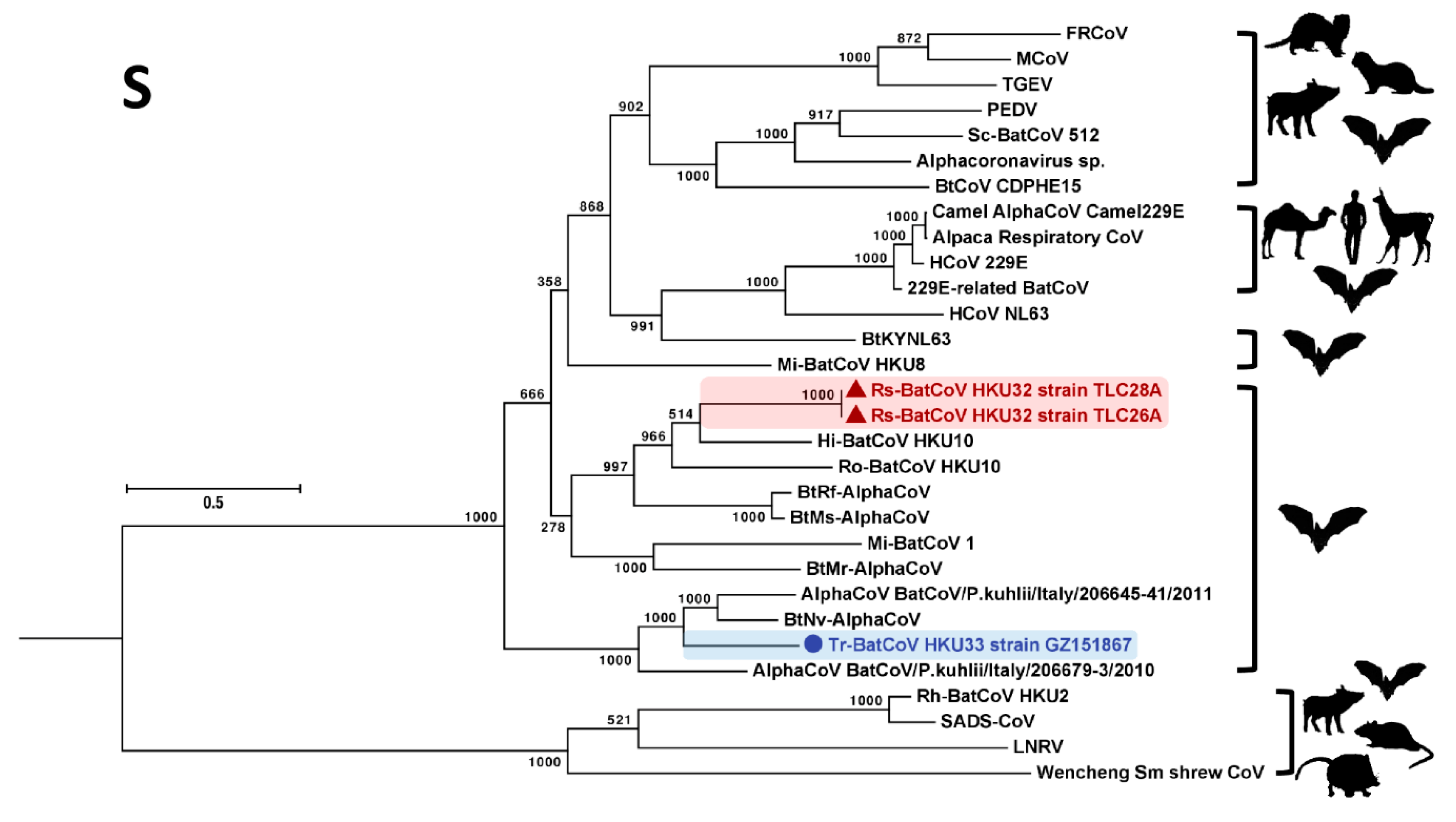 Phylogenetic analysis of S amino acid sequences of Rs-BatCoV HKU32 strains TLC26A and 28A, Tr-BatCoV HKU33 strain GZ151867 and other alphaCoVs. S tree was constructed by maximum likelihood method using WAG + G + I + F substitution model. The bootstrap values are calculated from 1000 trees. Tree was rooted using corresponding sequence of MERS-CoV (GenBank accession number YP_009047204.1). All bootstrap values are shown. The scale bar represents 2 substitutions per site. Both Rs-BatCoV HKU32 and Tr-BatCoV HKU33 are highlighted in red (triangle) and blue (circle), respectively. Corresponding viral hosts are shown on the right.